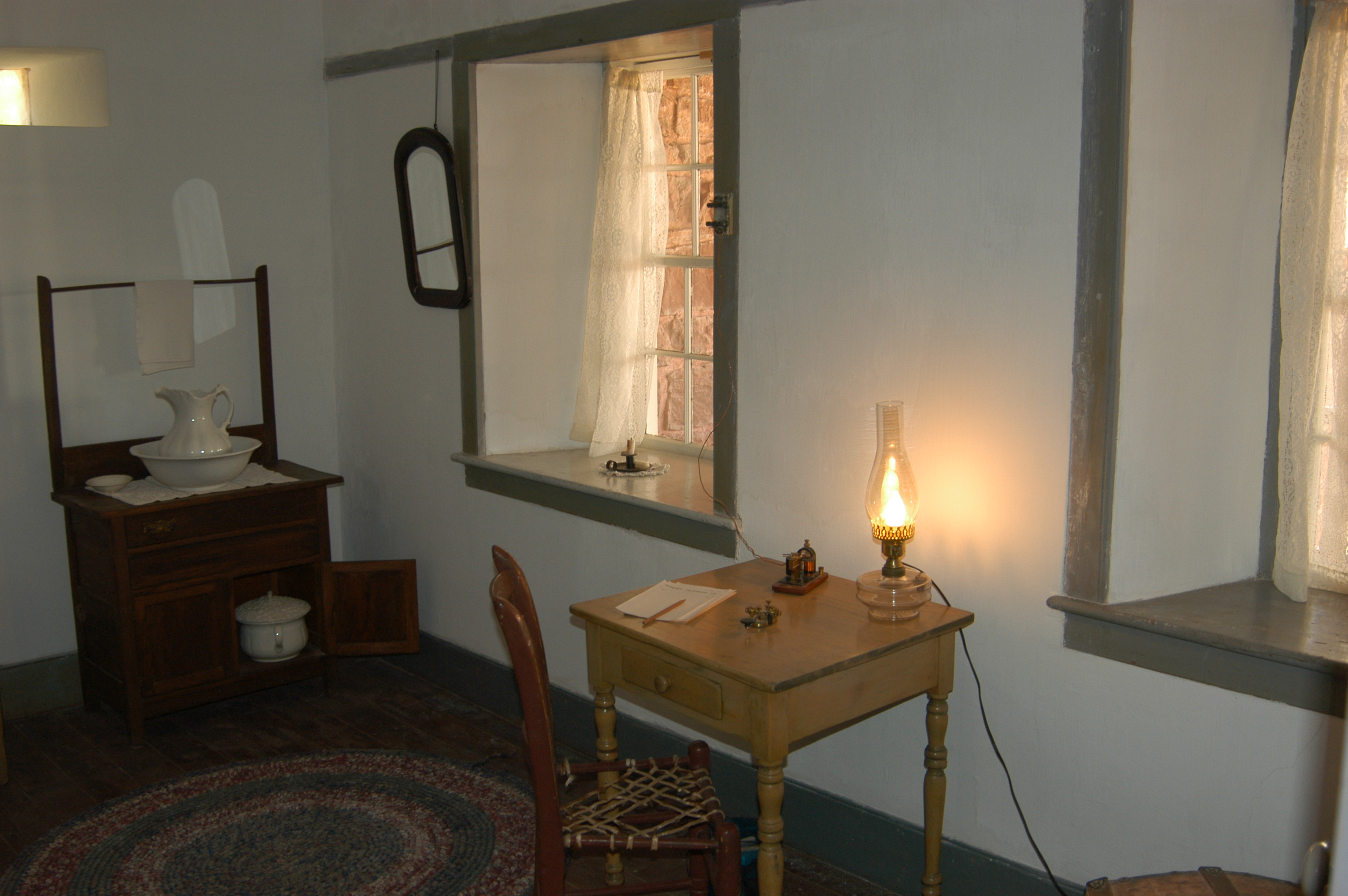 Room at Pipe Spring National Monument that was the first telegraph office in Arizona.